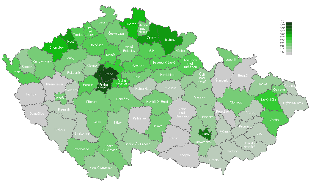 Percentual results of the Green Party in the 2010 Chamber of Deputies election by districts